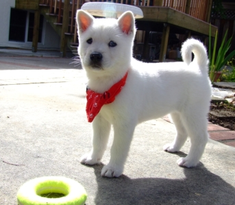 7 weeks old female Kishu Inu in California